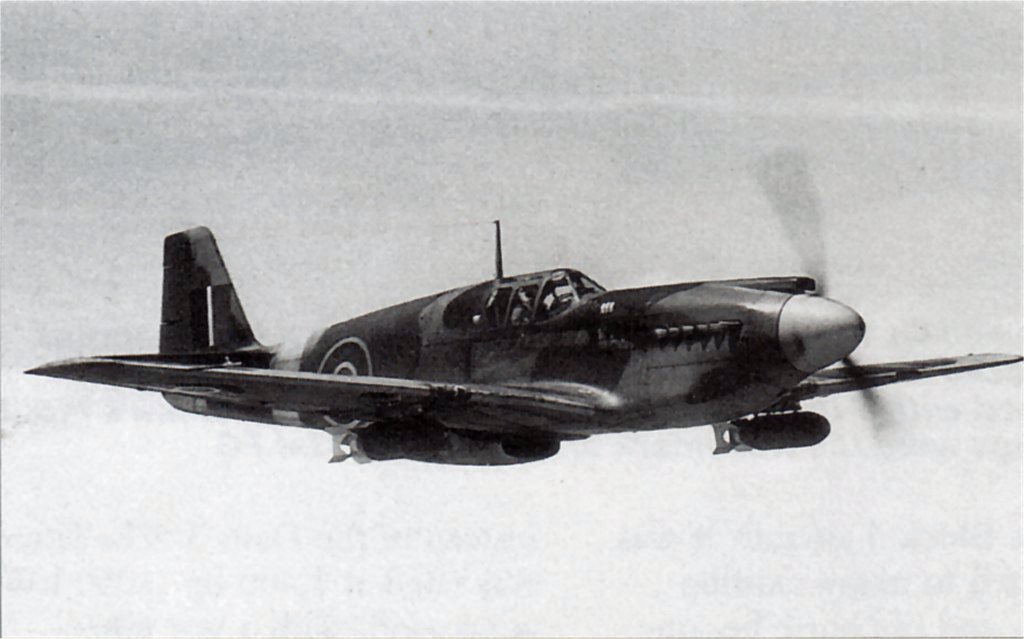 Sole RAF A-36A on demonstration flight, front, right 3/4 view.